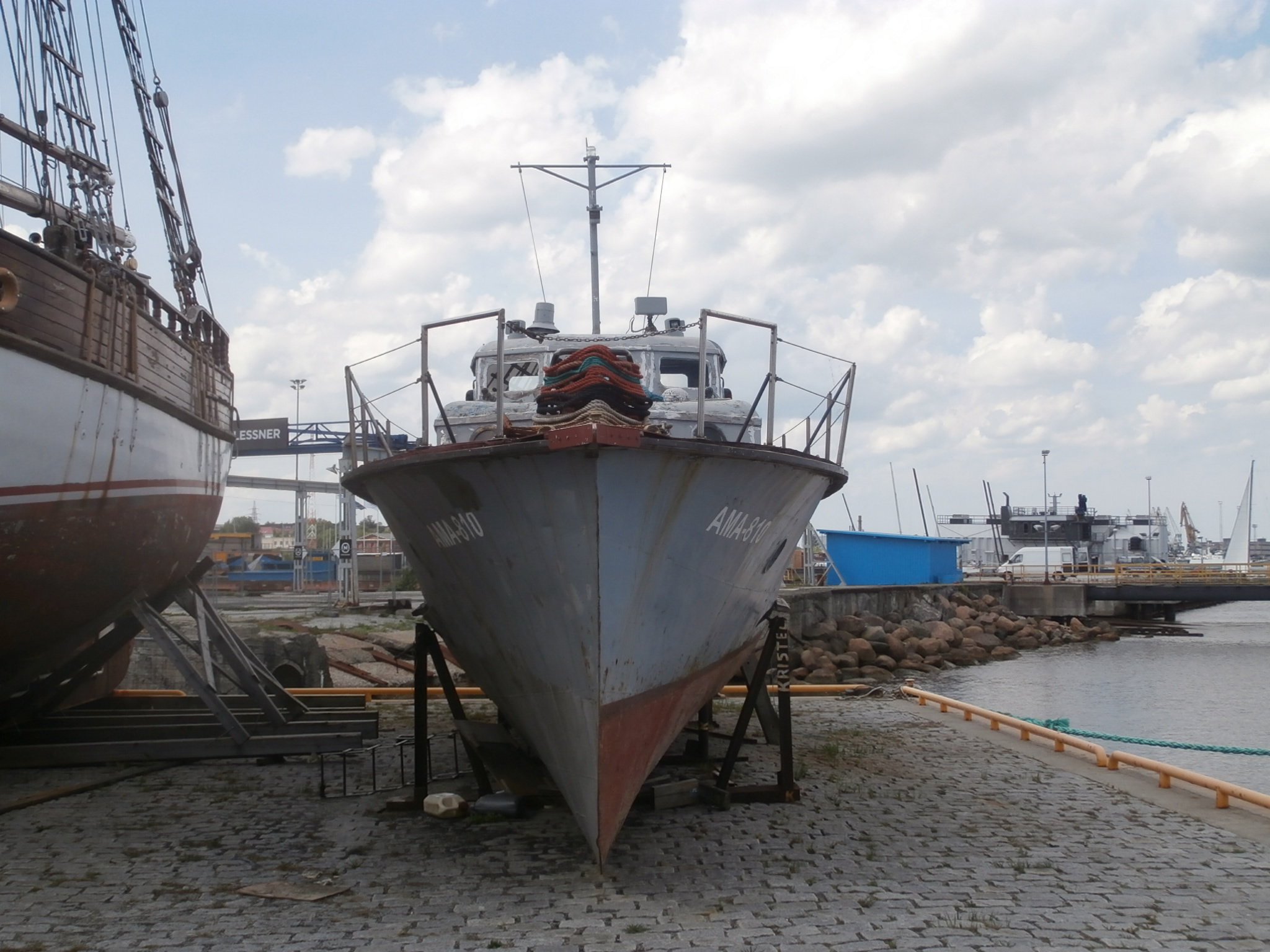 AMA-810 Kristel bow, ashore in Lennusadam Tallinn 2 July 2016 (Helene von Maasholm on the left